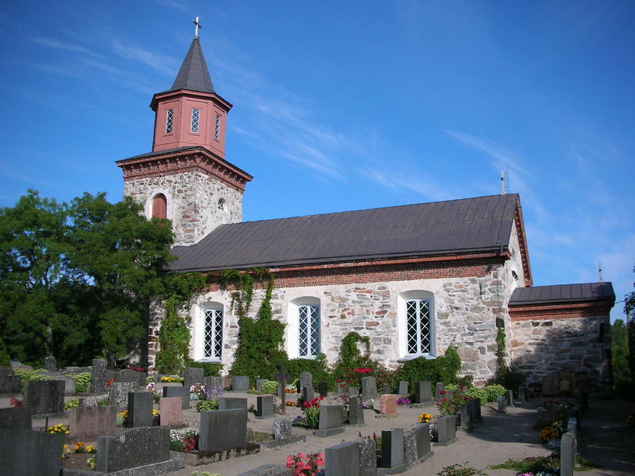 Iniö Church in Iniö, Väståboland, Finland